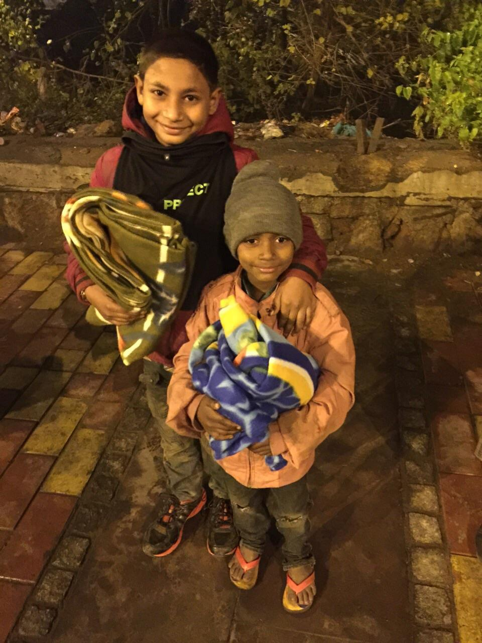 Blankets Distributed to Homeless Children during the RHA Winter Campaign.